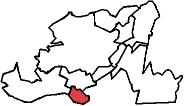 Maps based on images by Earl Warren, from the 2007 elections